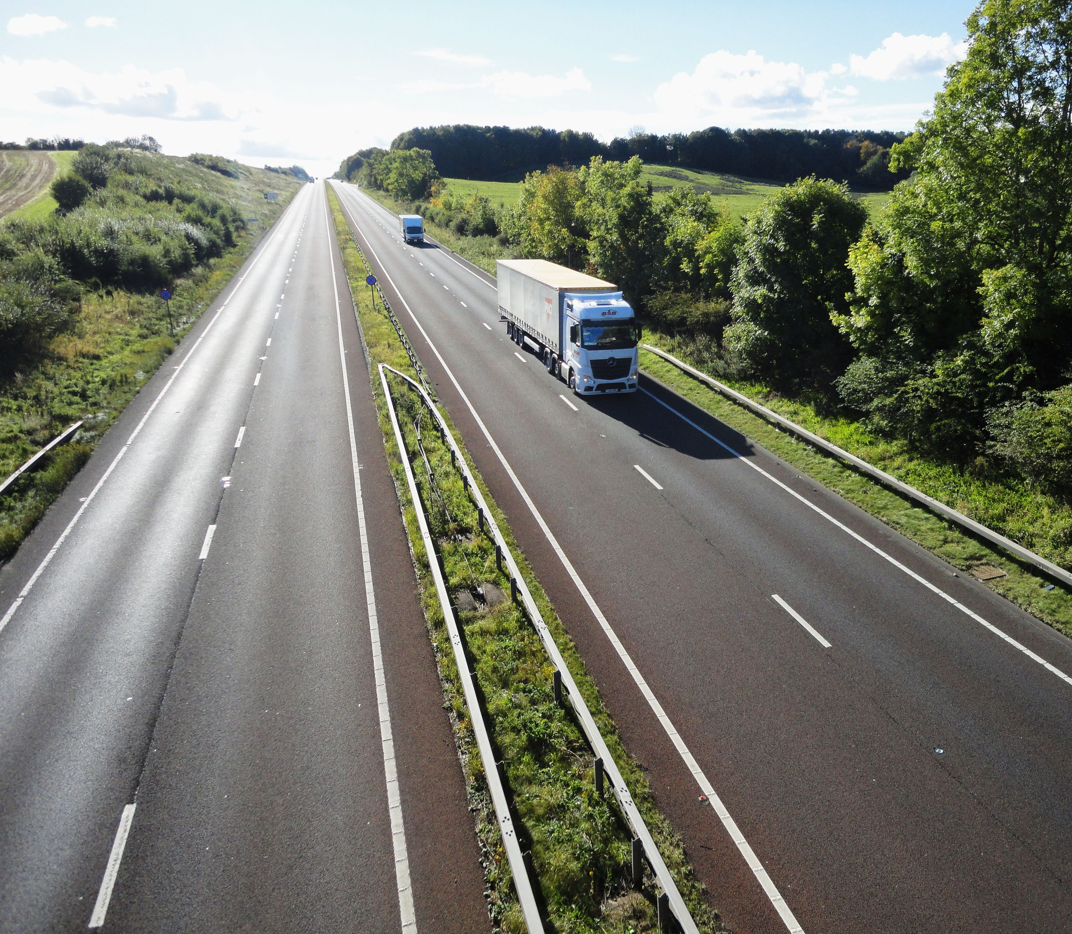 ... near Alnwick, Northumberland - the A1.